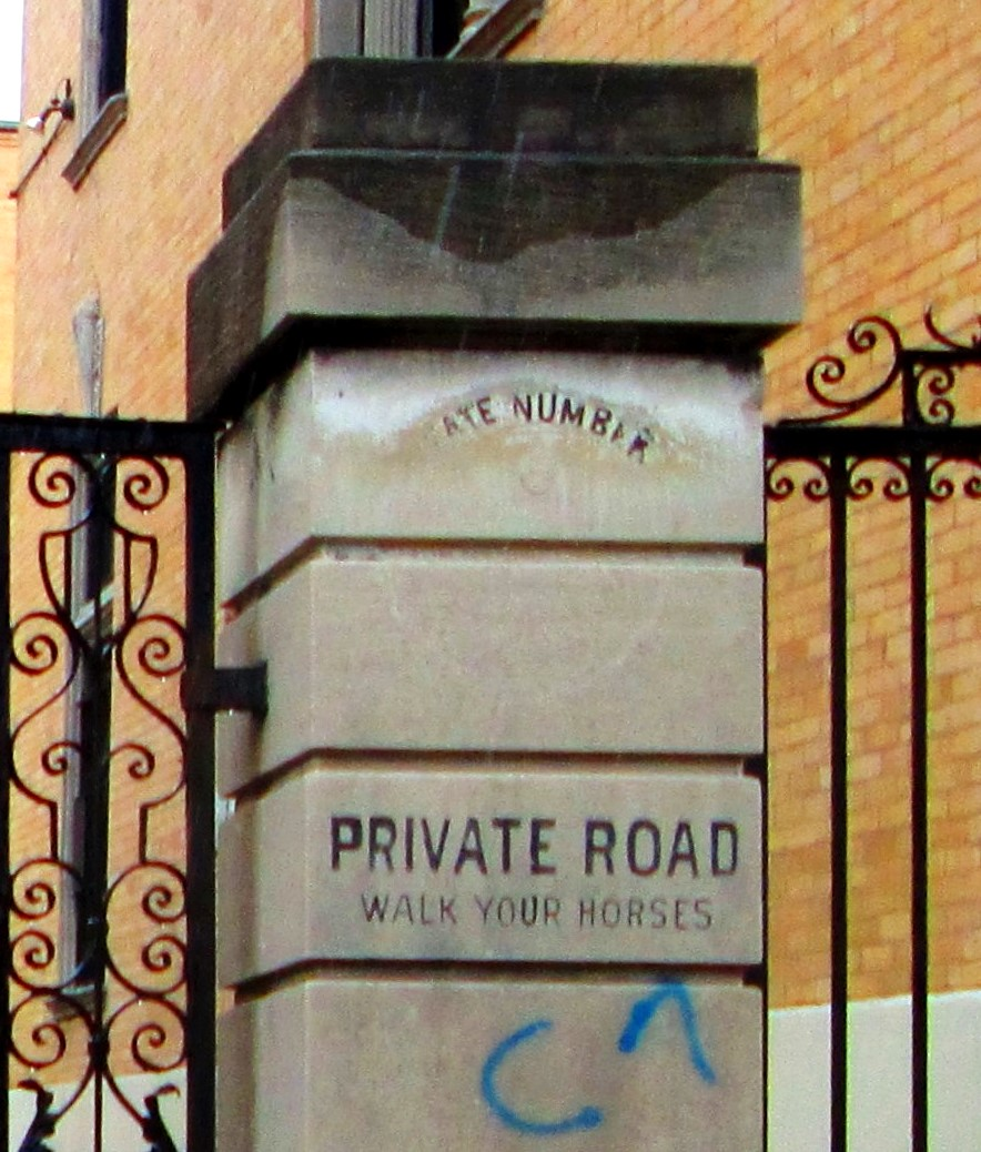 Close up of Gate #6, on the north side of West 138th Street, toward the west end of the street, with notice to "Walk your horses" The St. Nicholas Historic District, known colloquially as "Striver's Row", is located on both sides of West 138th and West 139th Streets between Adam Clayton Powell Jr. Boulevard (Seventh Avenue) and Frederick Douglass Boulevard (Eighth Avenue) in the Harlem neighborhood of Manhattan, New York City. It consists of four sets of residential rowhouses designed by noted architects and built in 1891-93 by developer David H. King, Jr.: the red brick and brownstone buildings on the south side of West 138th Street and at 2350-2354 Adam Clayton Powell Jr. Boulevard were designed by James Brown Lord in the Georgian Revival style; the yellow brick and white limestone with terra cotta trim buildings on the north side of 138th and on the south side of 139th Street and at 2360-2378 Adam Clayton Powell Jr. Boulevard were designed in the Colonial Revival style by Bruce Price and Clarence S. Luce; the dark brick, brownstone and terra cotta buildings on the north side of 139th Street and at 2380 Adam Clayton Powell Jr. Boulevard were designed in the Italian Renaissance Revival style by Stanford White of the firm McKim, Mead & White. (Sources: Guide to NYC Landmarks (4th ed.) and AIA Guide to NYC (5th ed.))